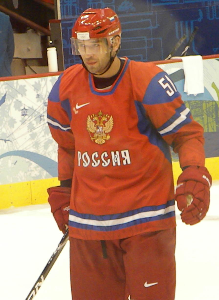 Fedor Tyutin of the Russia men's national ice hockey team, warming up before a match against the Latvia men's national ice hockey team in the 2010 Winter Olympics at Canada Hockey Place on February 16, 2010.